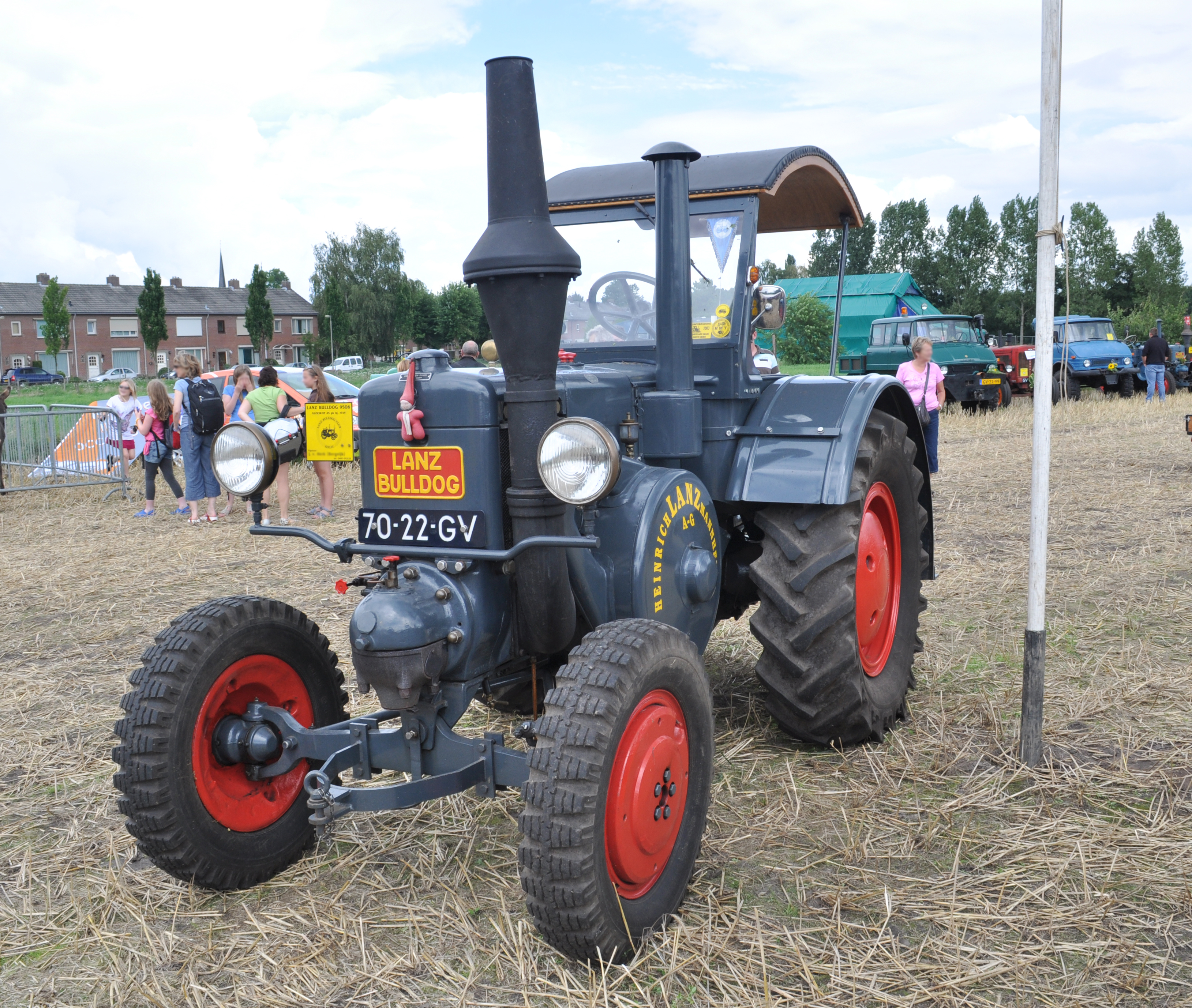 A LAnz Bulldog D 9506 from 1939